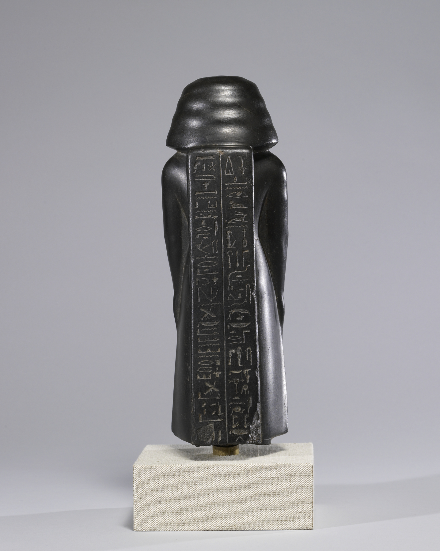 A remarkable example of the re-use of a work of art, reflecting the course of Egypt's long history, this statue was originally carved to commemorate a powerful government official. A thousand years later the inscription naming this unknown man was erased, and a carved scene was added depicting its new owner, Pa-di-iset, son of Apy, worshipping the gods Osiris, Horus, and Isis. From a text on the rear of the statue we learn that Pa-di-iset was a diplomatic messenger to the neighboring lands of Canaan and Peleset (Palestine).